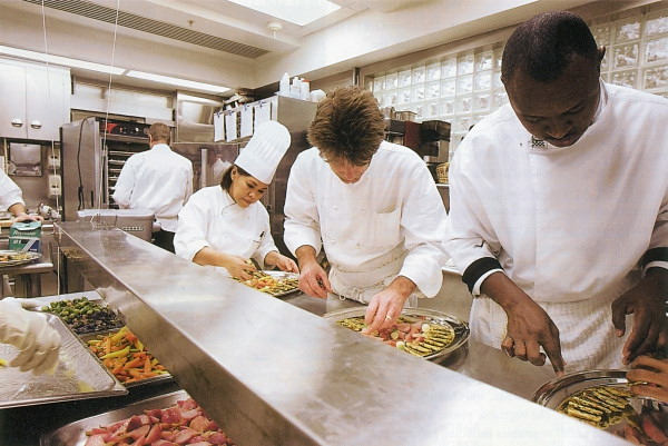 Cooks prepare tablets White House Executive Chef, Cristeta "Cris" Comerford, background-left in chef's hat, helps prepare trays of food, in the White House kitchen, in preparations for the official dinner for the Prince of Wales and Duchess of Cornwall.